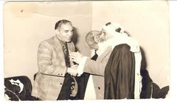 Sheikh Salem Alharsh with Egyptian Defense Minister Abou Taleb